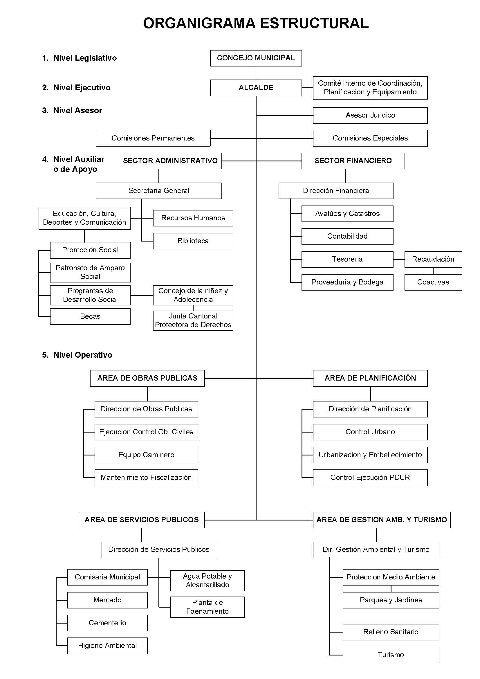 Organizational structure of Gobierno Autónomo Descentralizado de Piñas